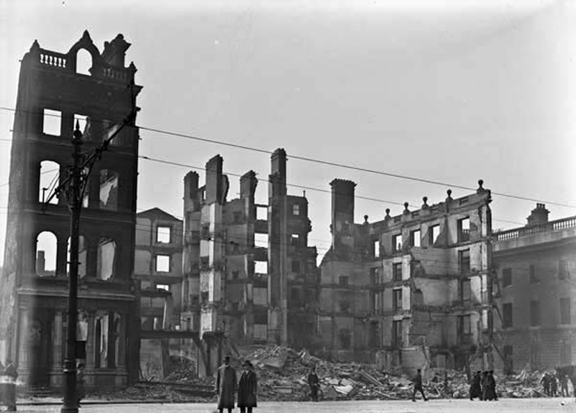 All that remained of the Metropole Hotel, beside the GPO on Sackville Street (now O'Connell Street), after the Easter Rising, 1916. This site is now occupied by Penney's Department Store. Date: Circa May 1916 NLI Ref.: KE_110